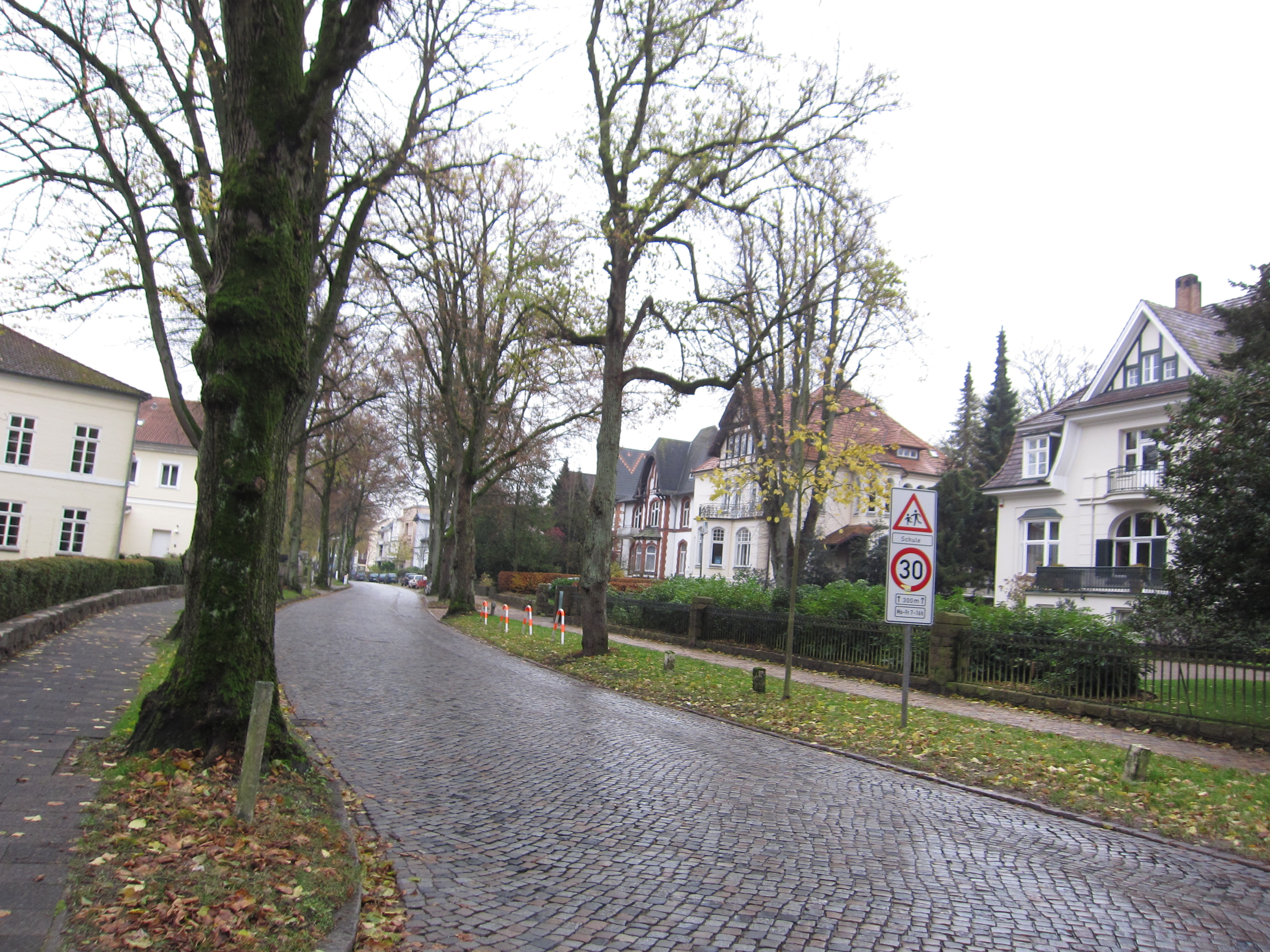 Street "Stuhrsallee" in Flensburg